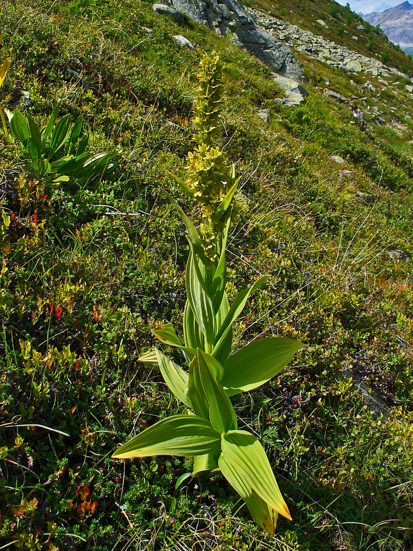 Veratrum album ssp. lobelianum, Melanthiaceae, European White Hellebore, White Veratrum, habitus. Muottas Muragl, Engadin, Switzerland, altitude ca. 2400 m.